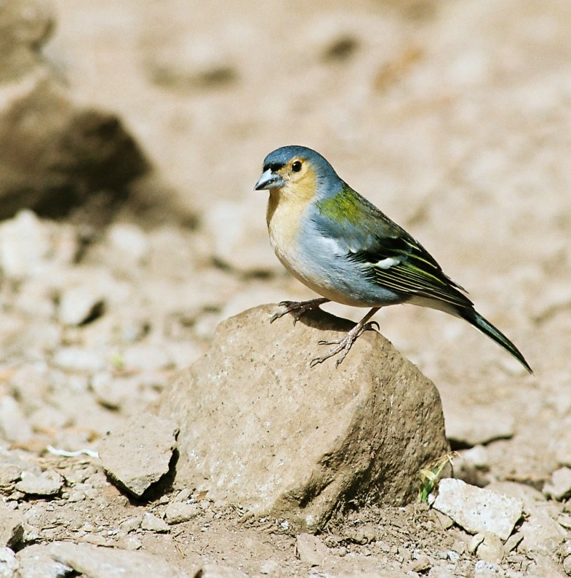 Madeira Chaffinch